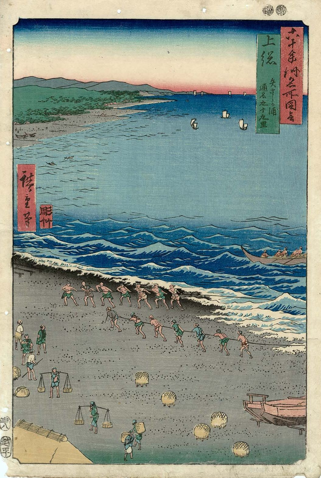 Part of the series Famous Places in the Sixty-odd Provinces, No. No. 19 (Tōkaidō group)